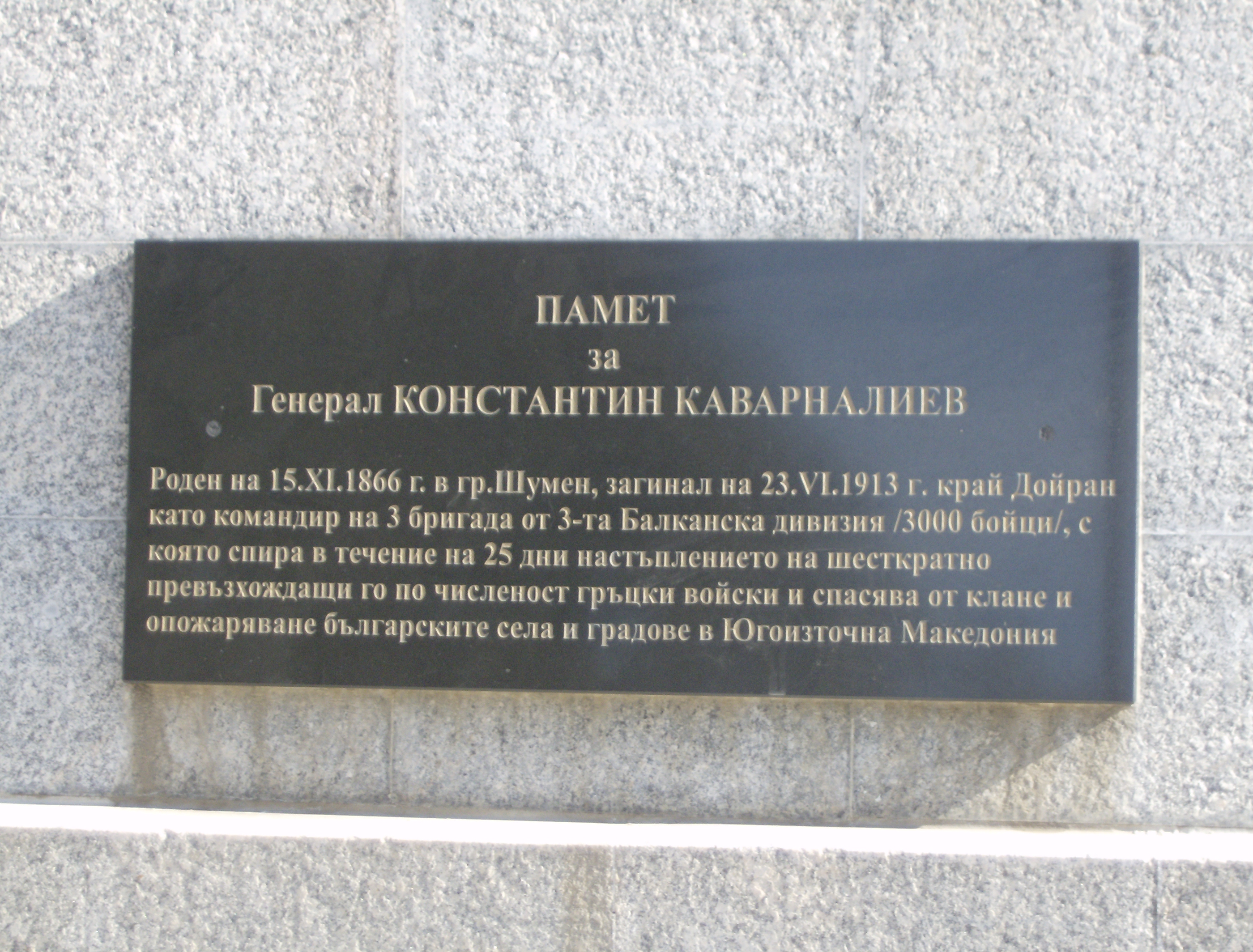 Kavarnaliev monnument Shumen